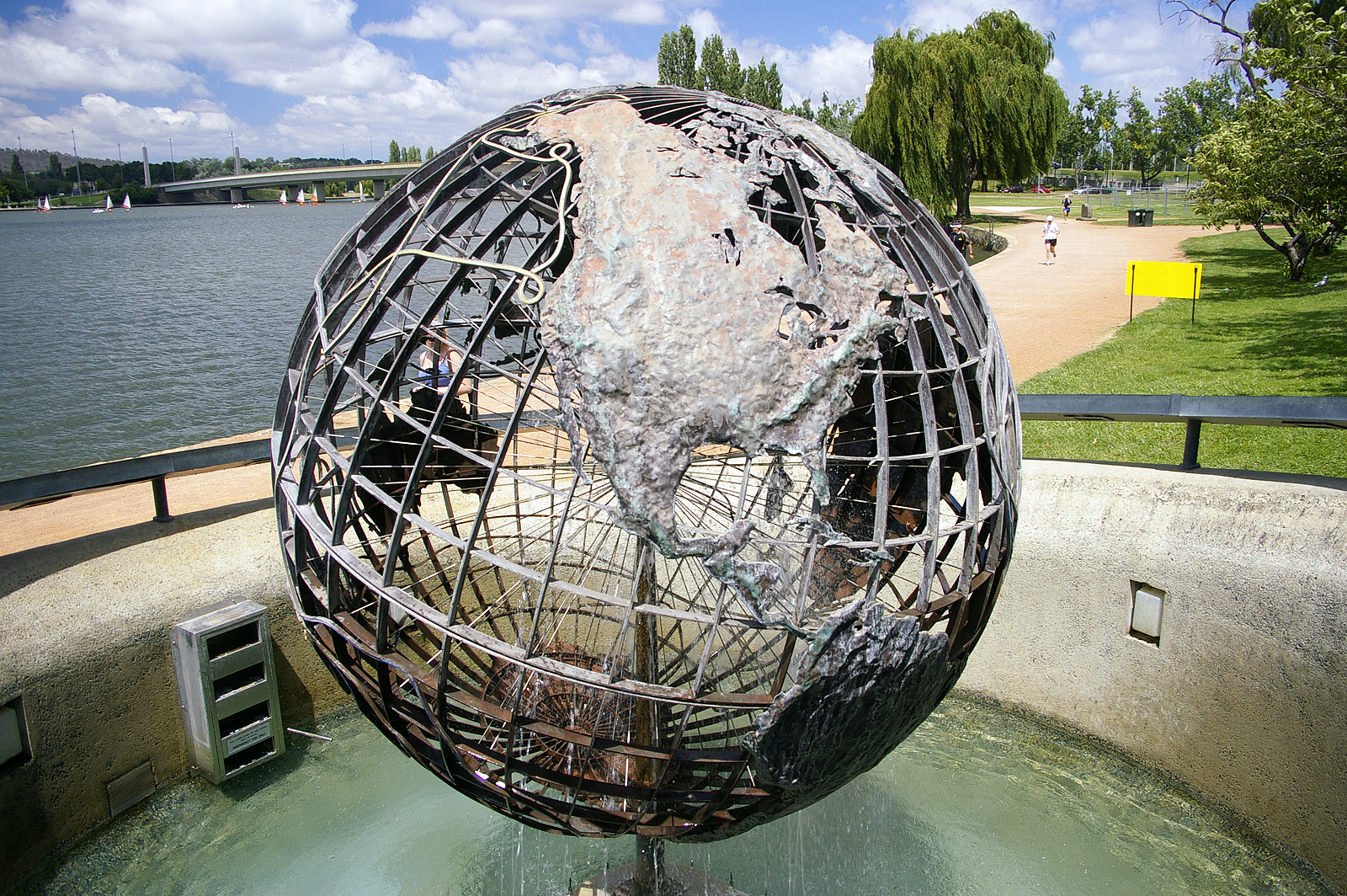 Captain Cook Memorial located on the banks of Lake Burley Griffin in Canberra, Australian Capital Territory.